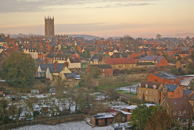 Ludlow from the south west Viewed in evening light from the path that runs along the top of Whitcliffe. Snow on the field and allotments in the foreground is from a fall two days earlier. Part of the town walls can be seen running across the photo, with the site of Mill Street Gate in the centre. The tower of St Laurence's Church is prominent on the skyline. In the far distance on the right is Brown Clee.